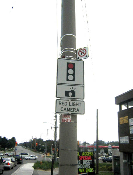 A red light camera warning sign, in Scarborough.